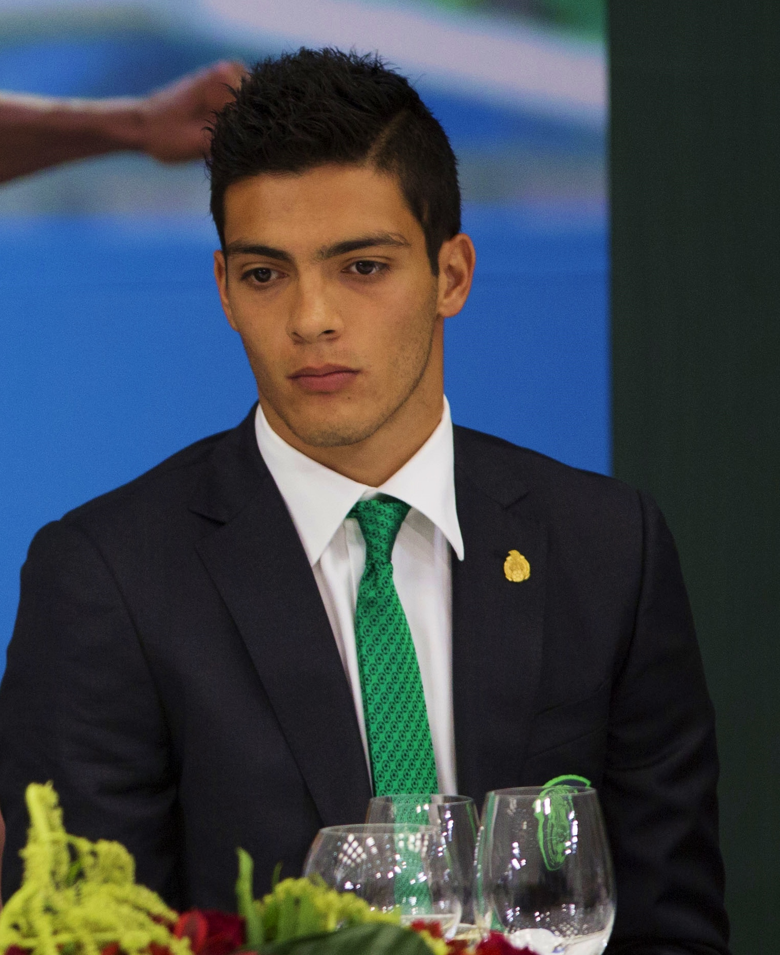 Raúl Jiménez